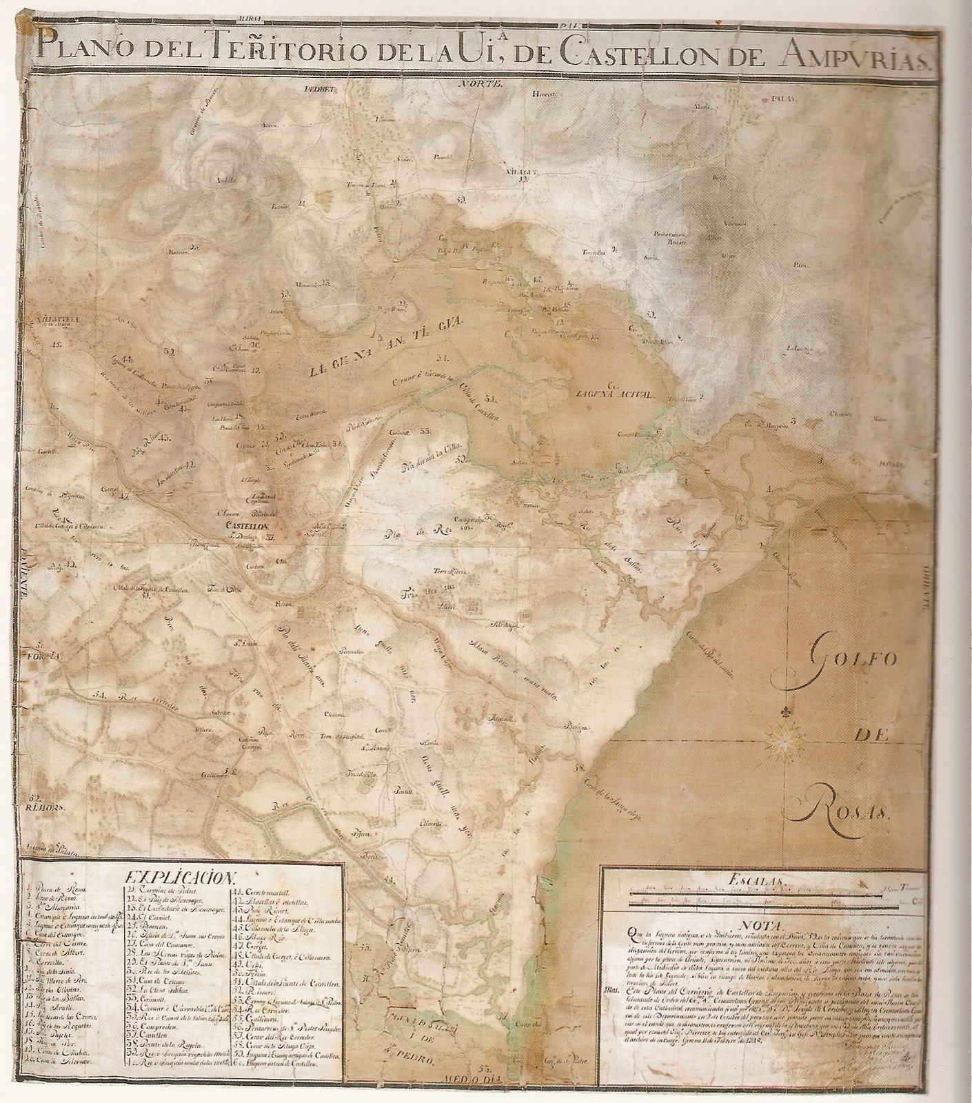 Map of the municipality of Castelló d'Empuries in 1748.